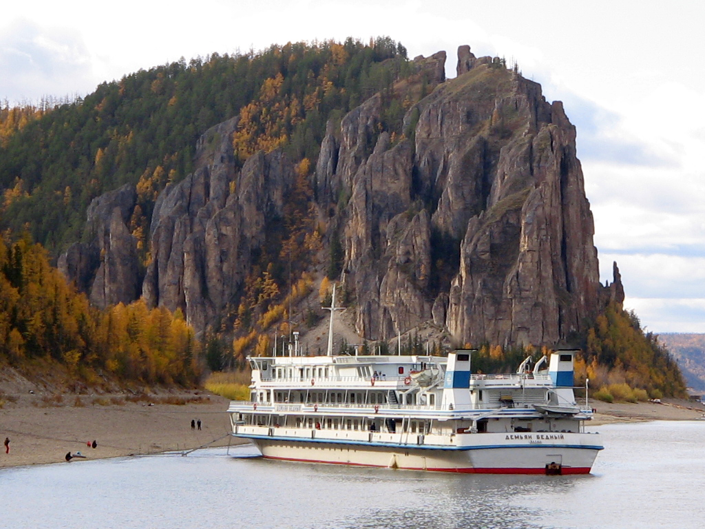 River cruise ship Demyan Bednyy (project Q-065) at pier Lenskiye Stolby